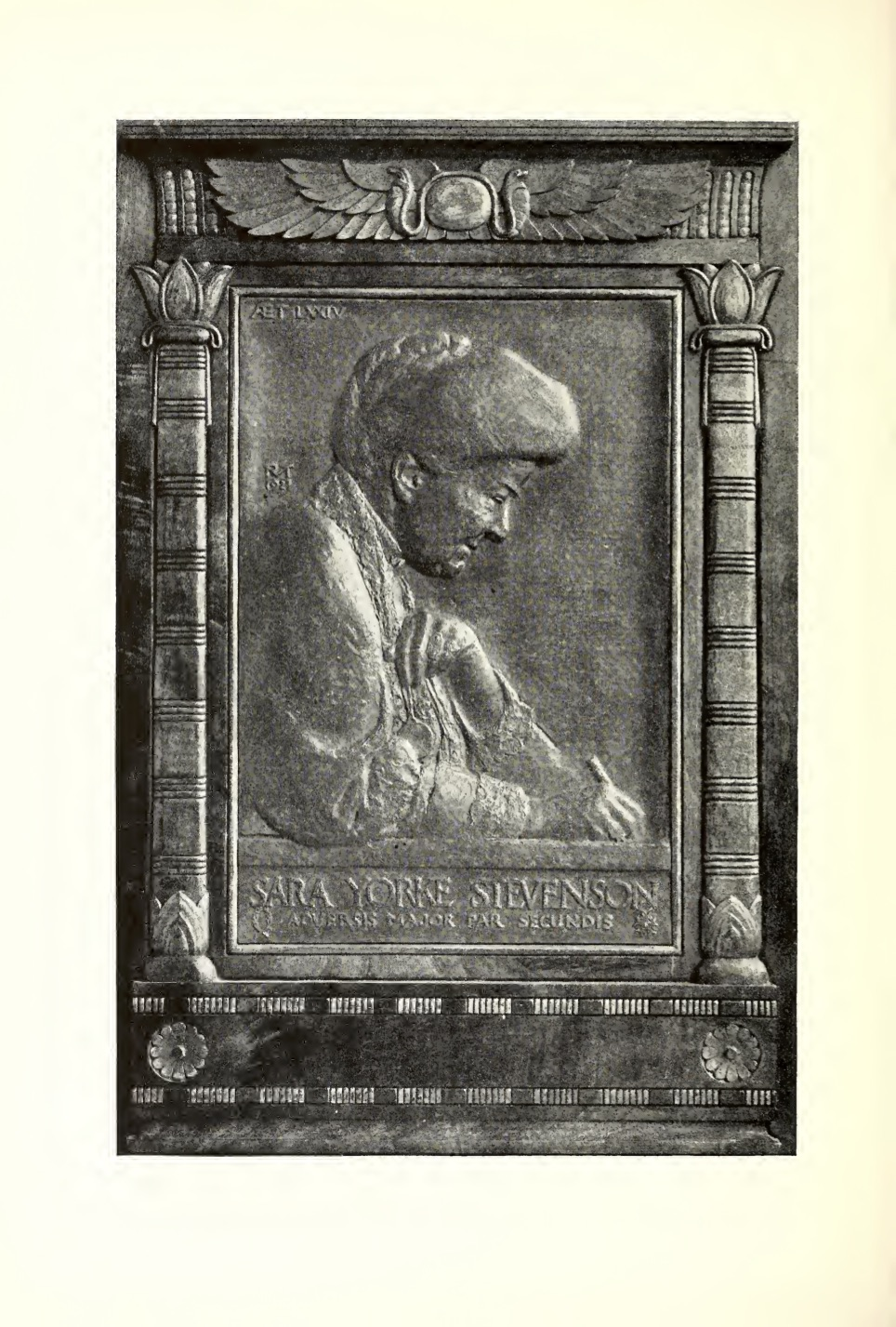 This is the plate accompanying a memorial tribute written for Sara Yorke Stevenson in the Pennsylvania Museum Bulletin. There are Egyptian stylistic elements (winged sun, flanking cobras, palm columns), a nod to her career in Egyptology. The epigram below reads ADVERSIS MAJOR PAR SECUNDIS (Greater in adversity, equal in prosperity). The Roman numeral LXXIV (74) appears in the upper left corner, her age at death.